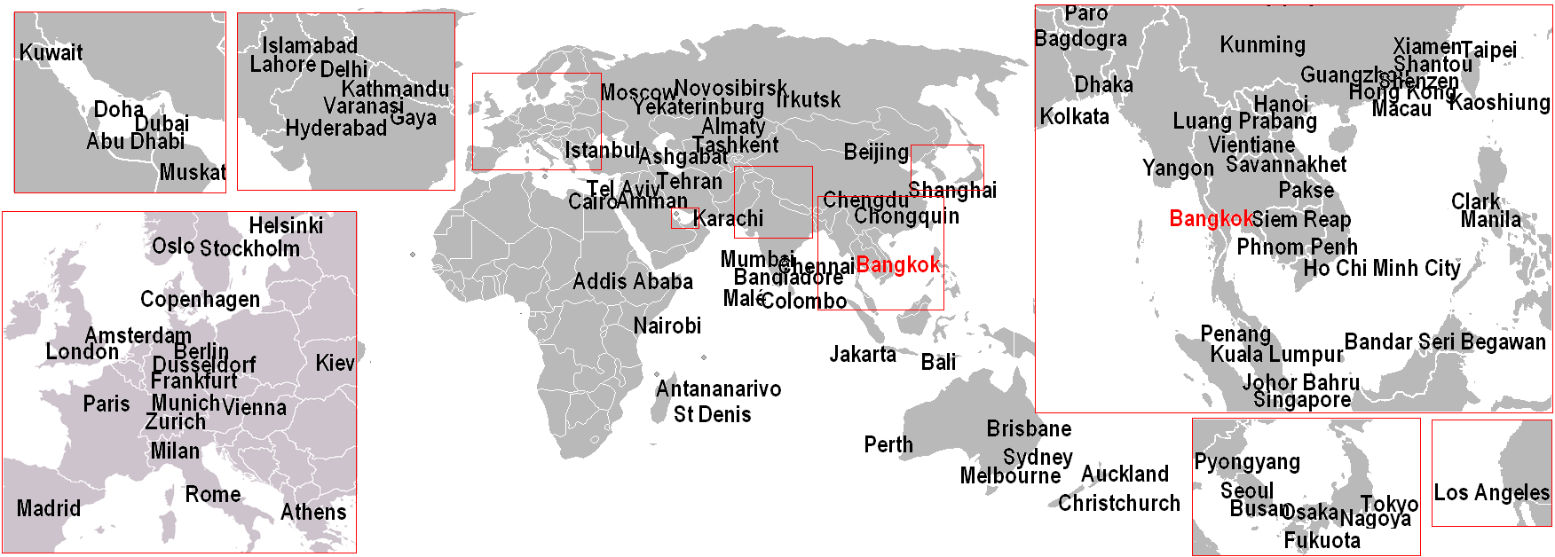 Cities with a direct international link to BKK